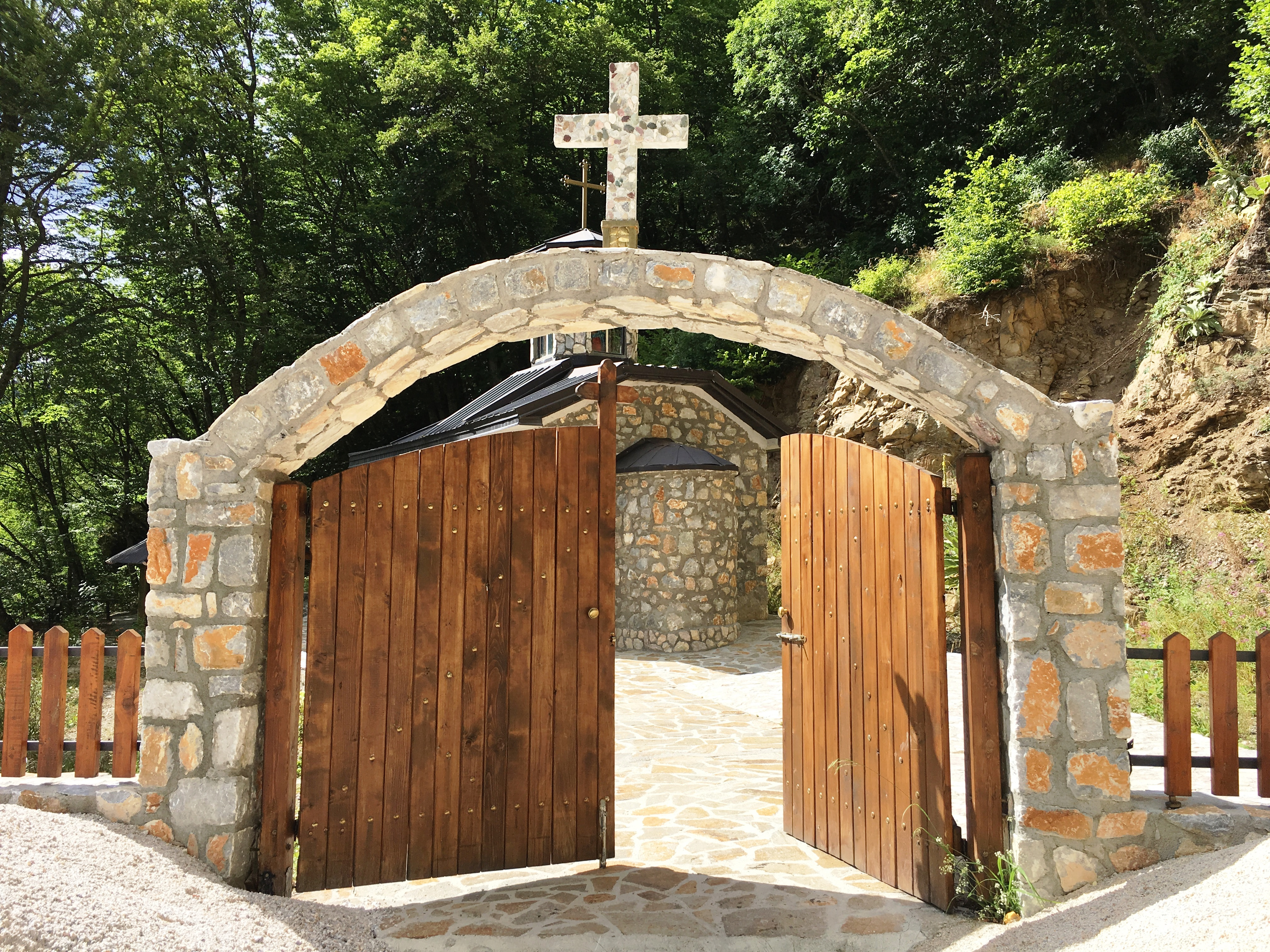 The opening gate of the Brodec Monastery